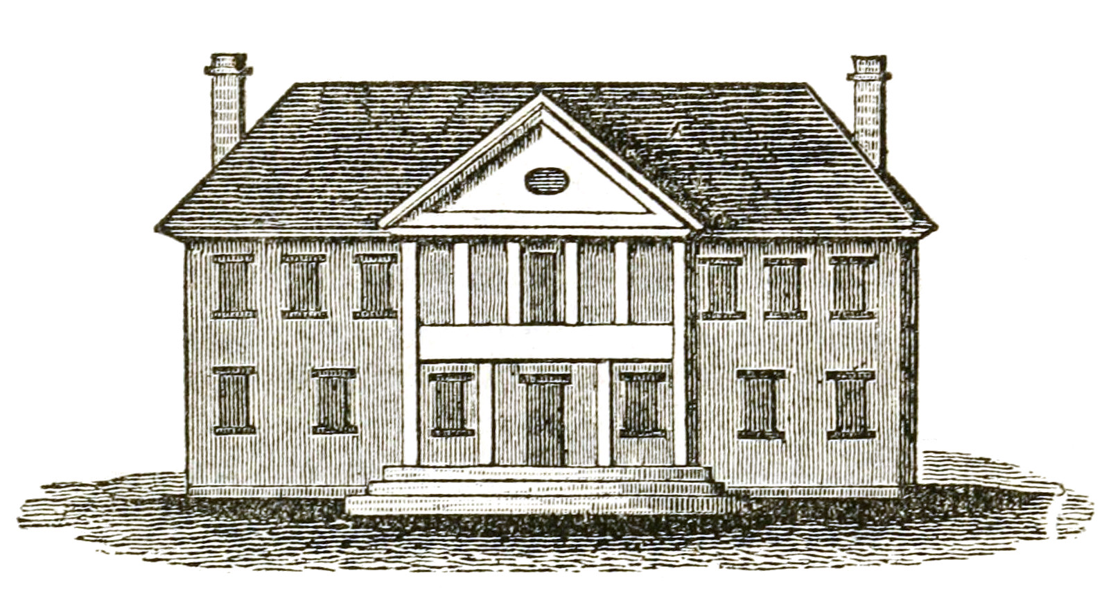 Engraving (after a sketch) of the second Capitol building at Williamsburg, Virginia. Engraving dated 1845. This view would be from Duke of Gloucester Street looking east.